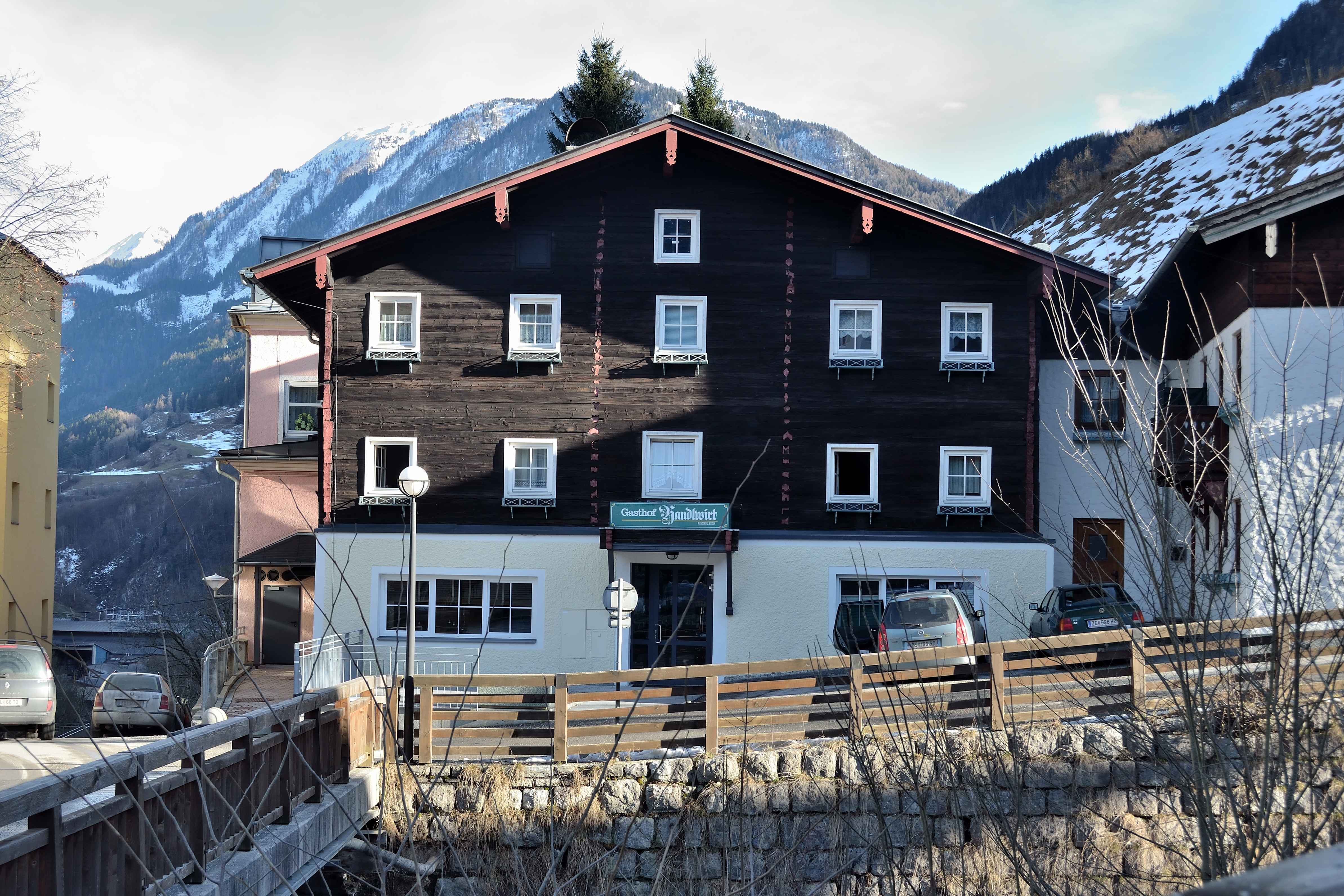 The inn Gasthof Handlwirt at Lend, Salzburg was founded in 1628.